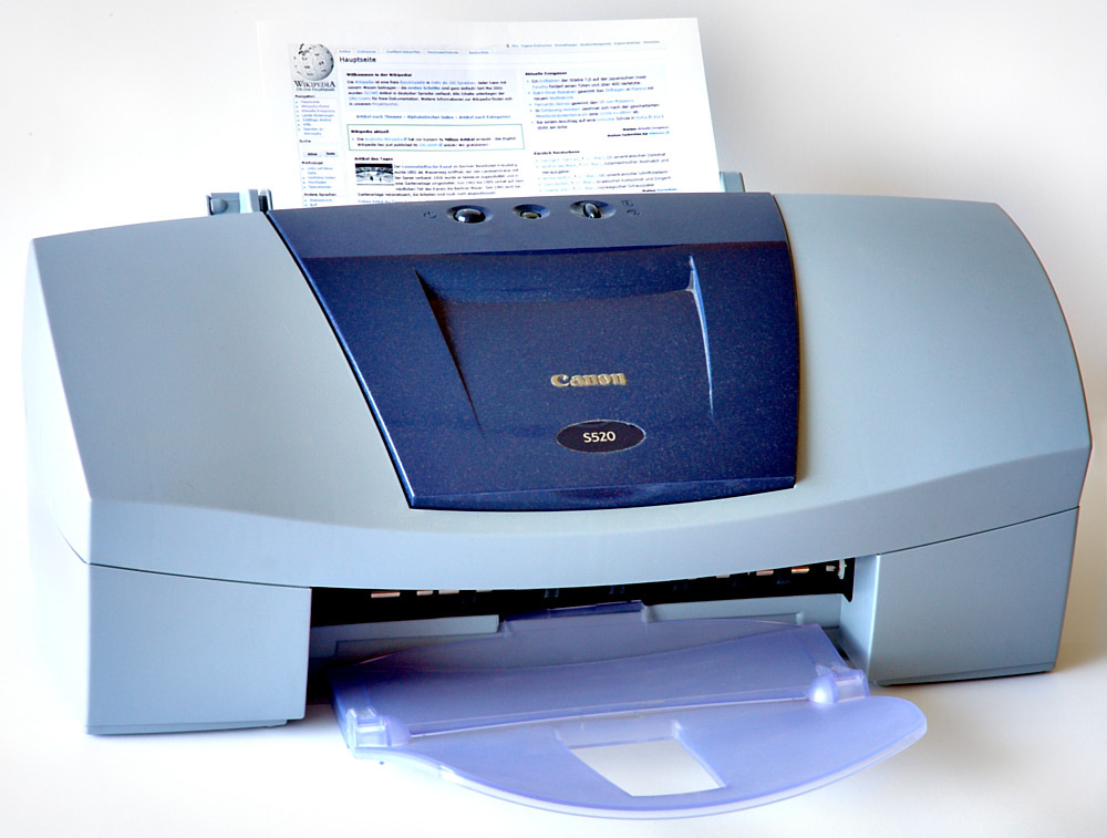 This image shows a canon S520 ink jet printer.